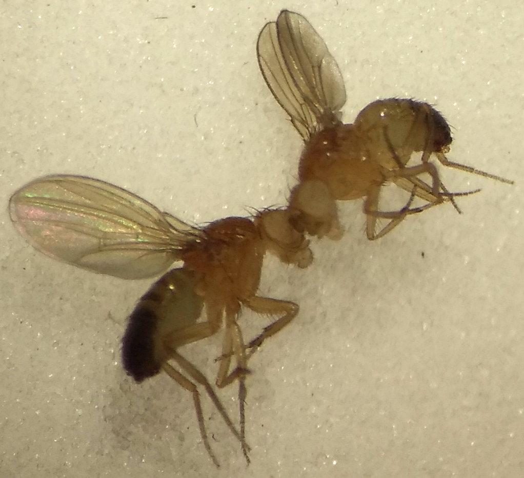 Two Drosophila melanogaster flies placed next to one another to compare wing sizes, where the left fly possesses the wild-type wing and the right fly possesses the miniature mutant wing.